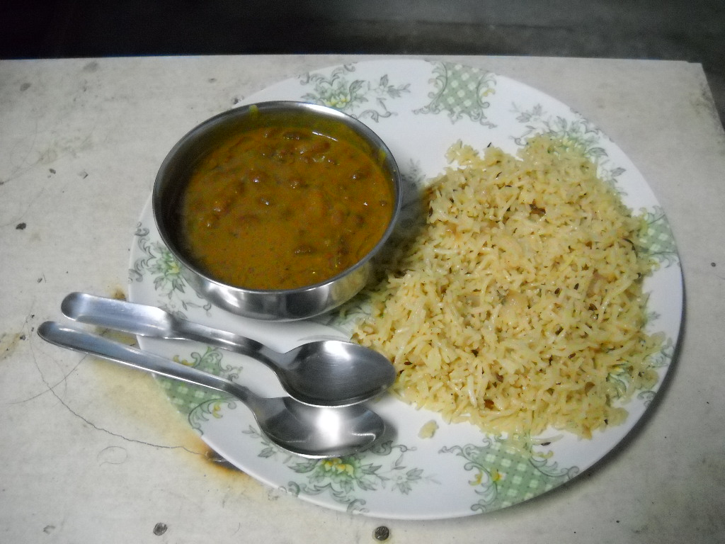 Curried rajmah with rice.